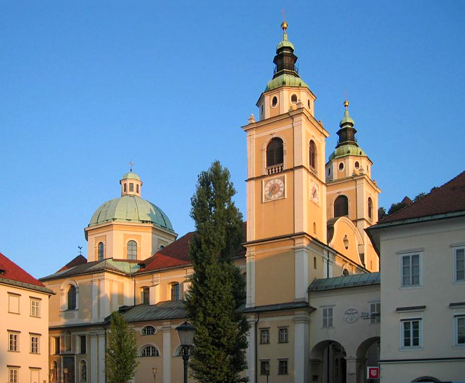 Ljubljana Cathedral, dedicated to Saint Nicholas, from Pogačar Square.